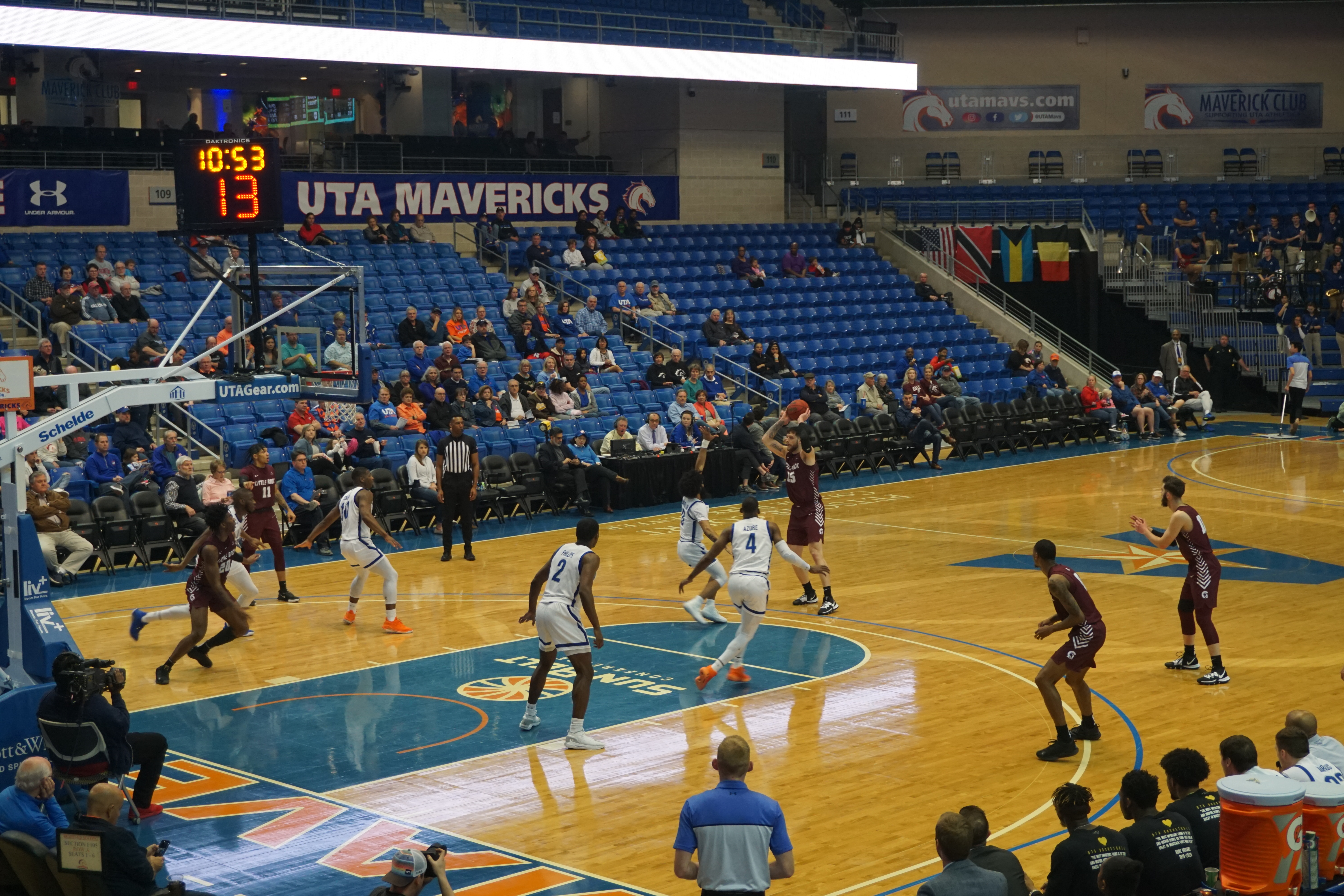 In-game action during the Little Rock Trojans vs. UT Arlington Mavericks men's basketball game at College Park Center in Arlington, Texas (United States). UT Arlington won 76–65.